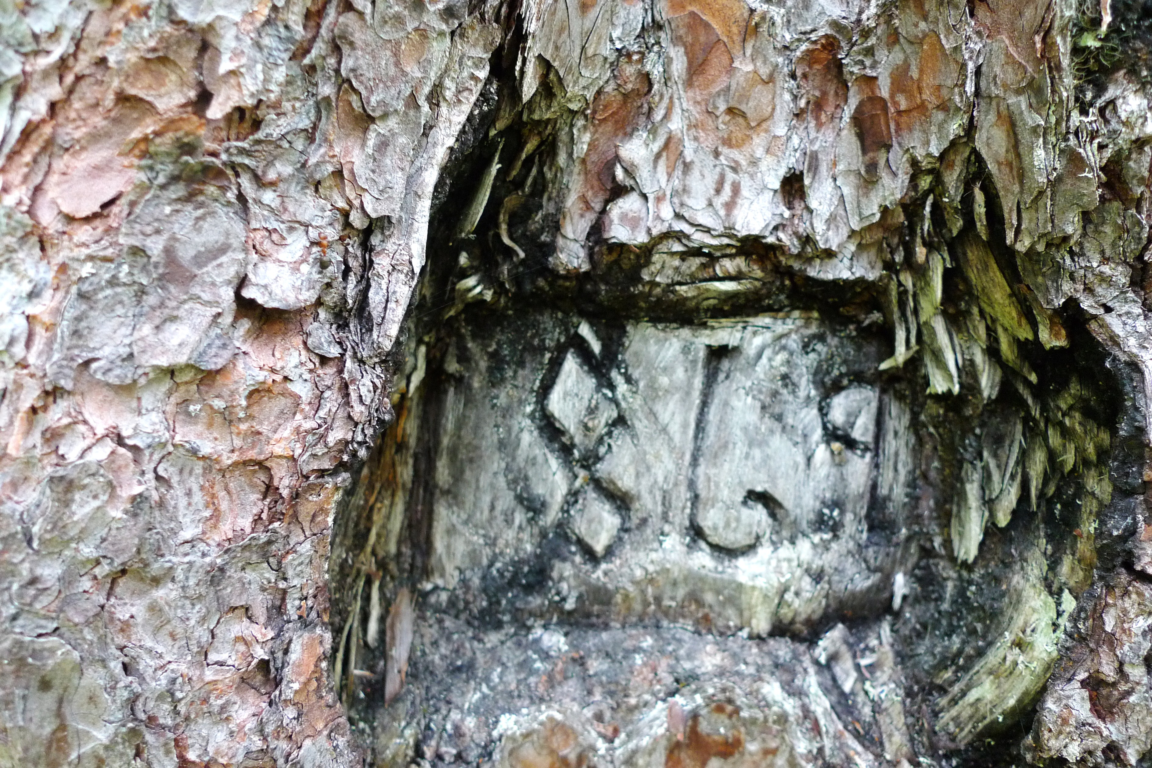 Inskripsjonen 1868 i furustammen.